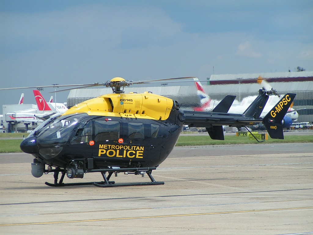 G-MPSC(1) at Heathrow